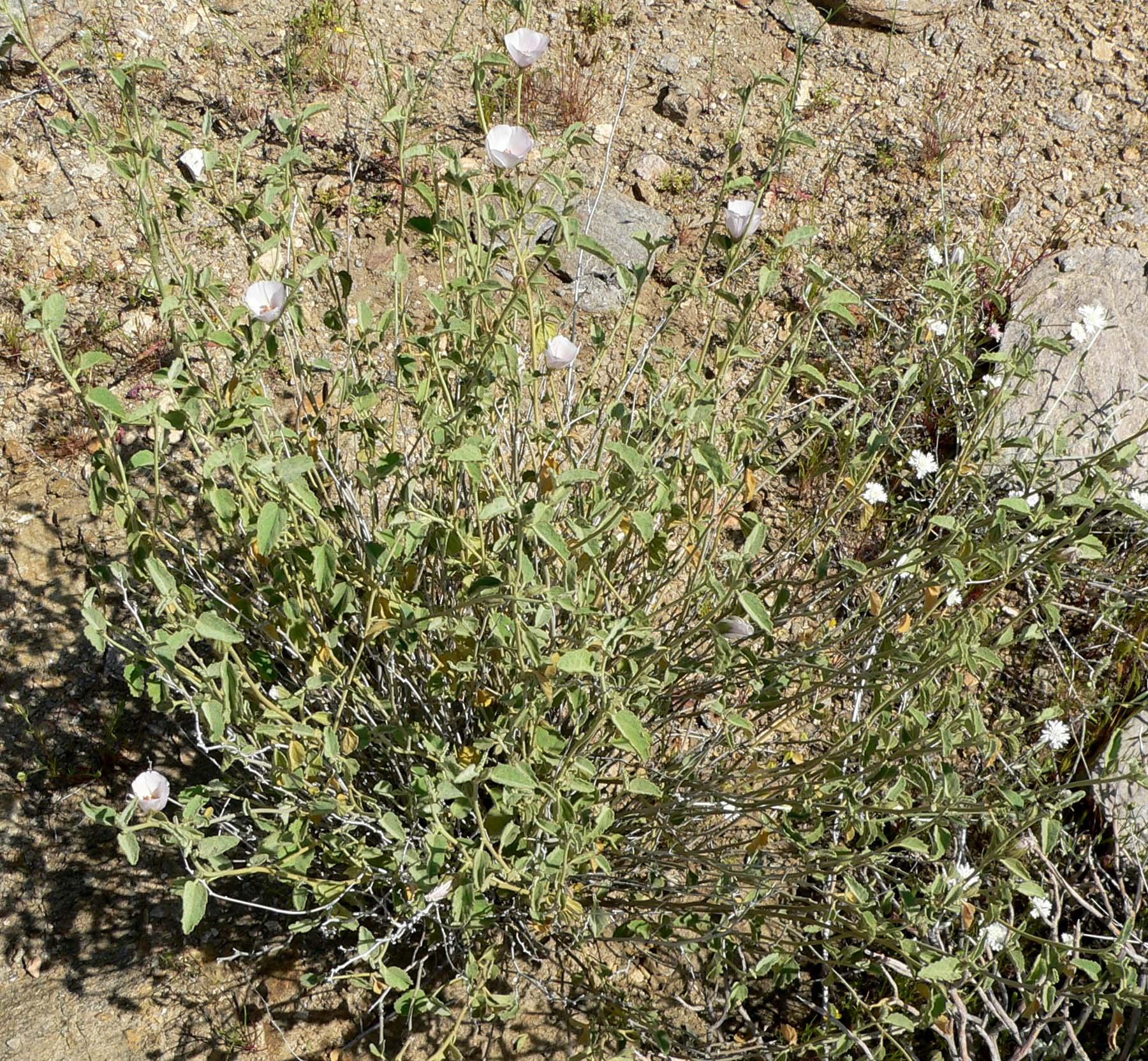 Photo of Hibiscus denudatus (pale face) in Palm Canyon, California